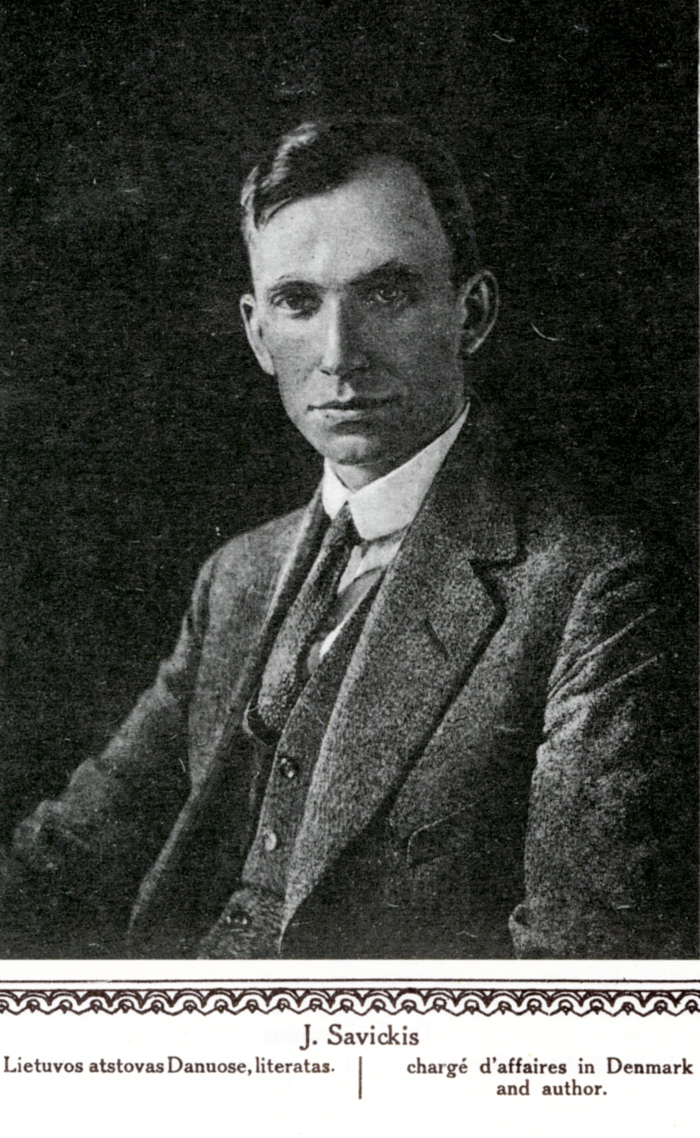 Jurgis Savickis, Lithuanian diplomat, writerLietuvių: Jurgis Savickis, Lietuvos diplomatas, rašytojas